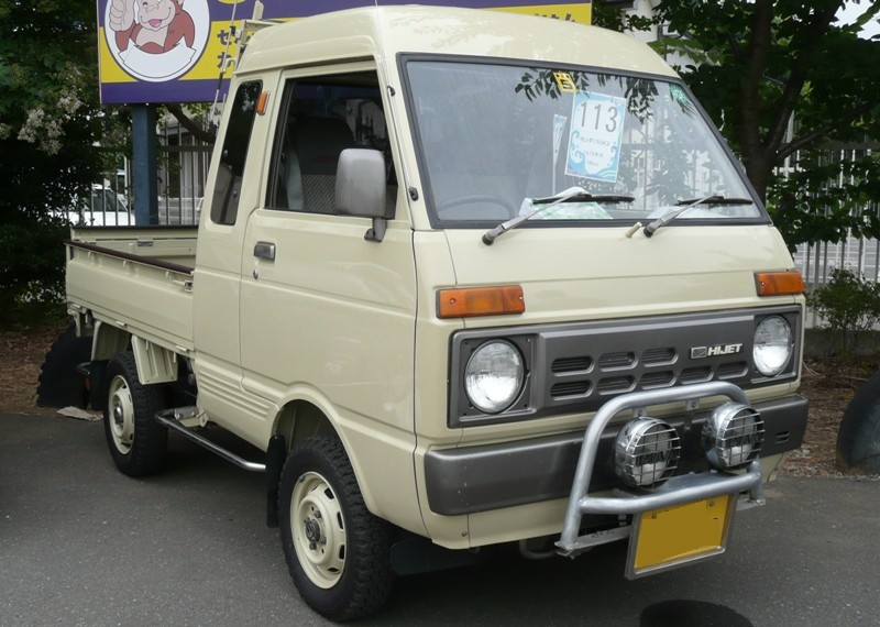 Daihatsu Hijet Jumbo.